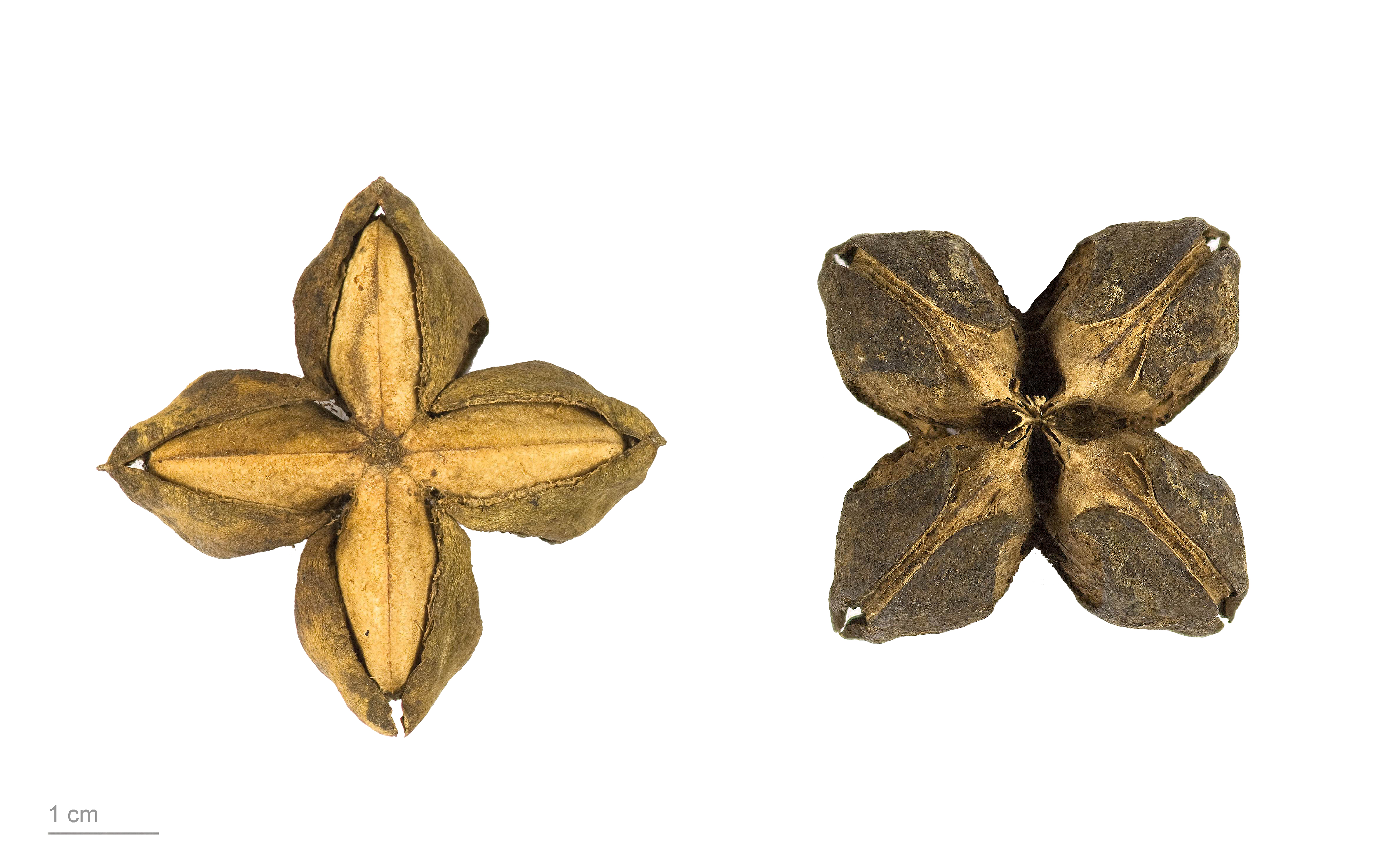 sacha inchi, fruits and seeds